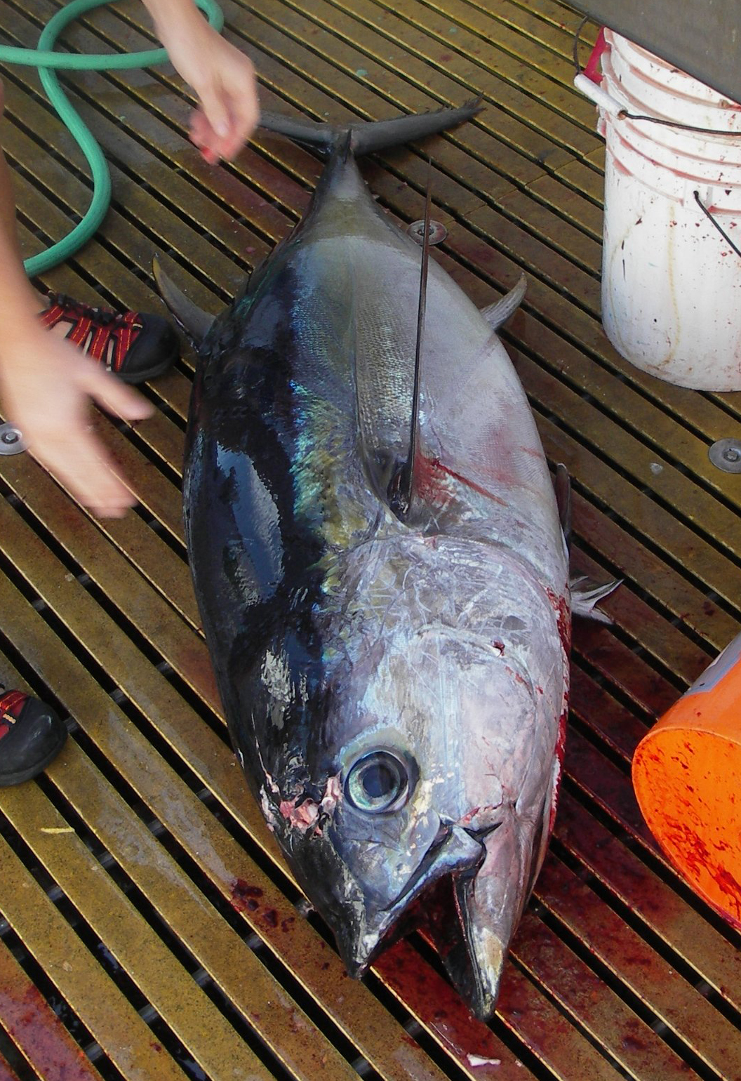 Longline fishing research on the NOAA Ship OSCAR ELTON SETTE. Yellowfin tuna Thunnus albacares